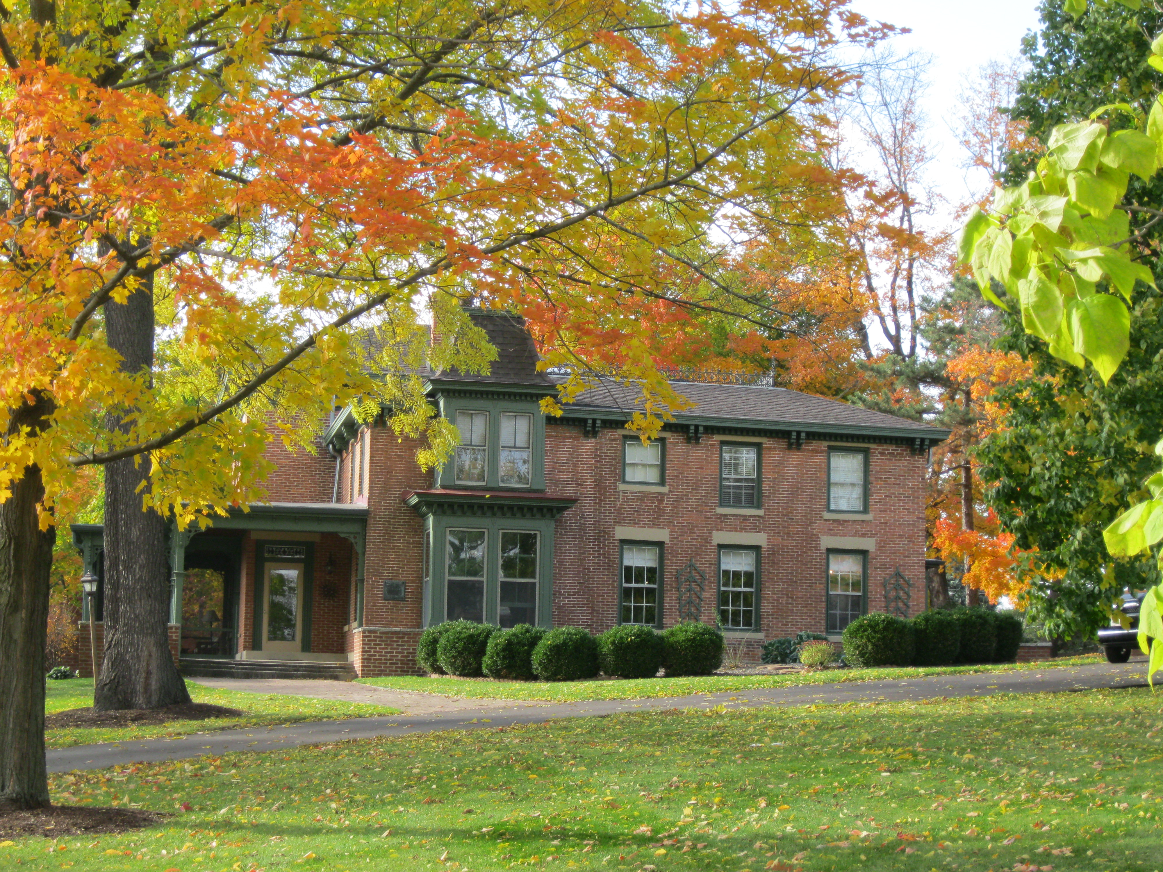 The Robert M. La Follette House, home of Wisconsin politician Robert La Follette, in Maple Bluff, Wisconsin.